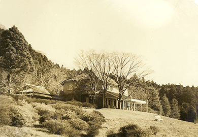 Odakyu Hotel de Yama in 1948.